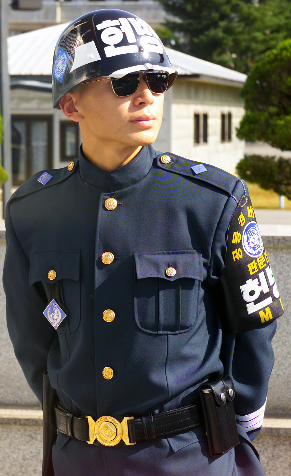 A Republic of Korea (ROK) Military Police (MP) stands guard duty at the Korean Demilitarize Zone (DMZ) in Panmunjom, as US Marine Corps (USMC) personnel visited the DMZ during Exercise TALON VISIOIN 02. The exercise is designed to improve military relations and operab.